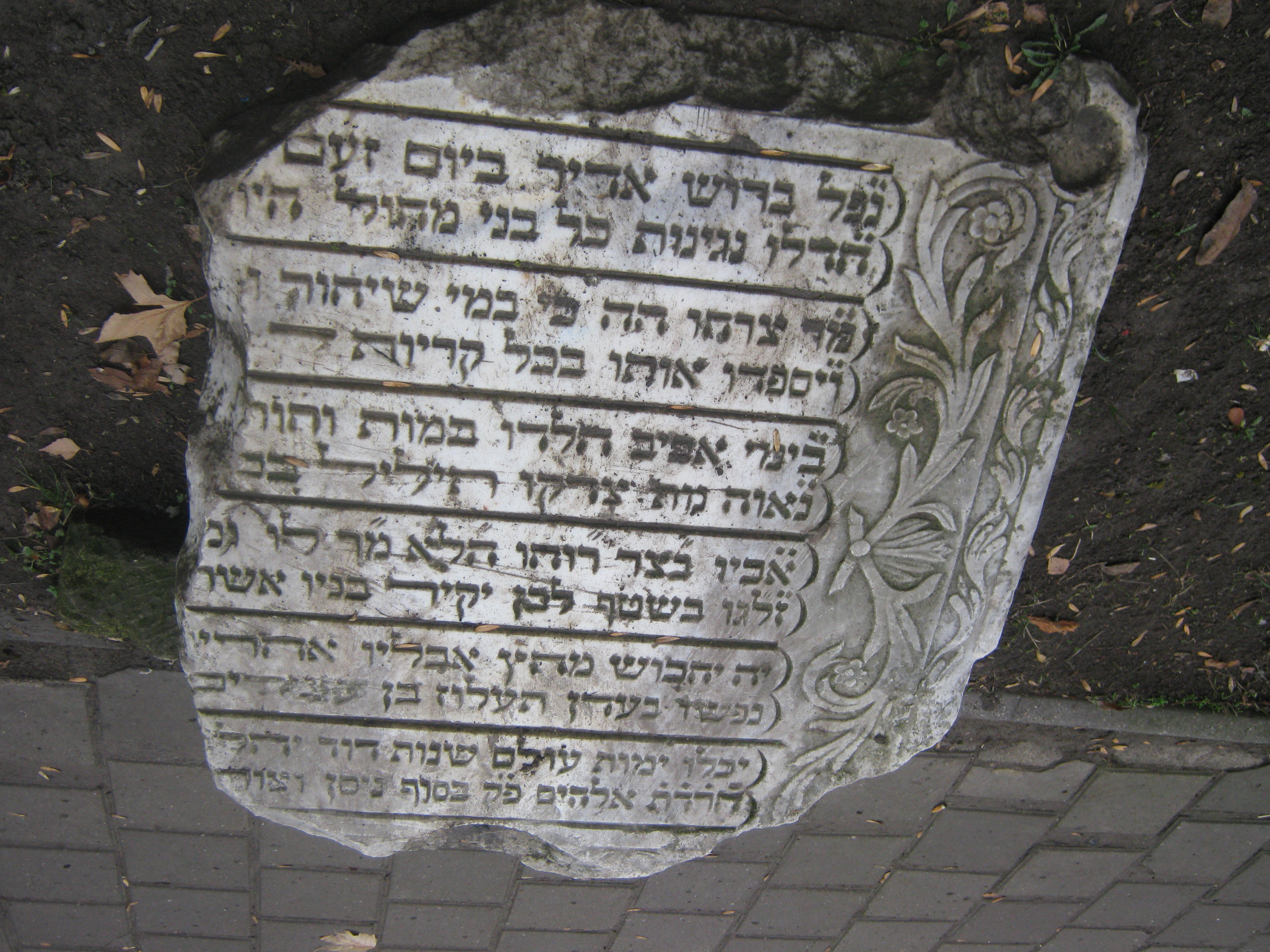 Old Crimean Tatar cemetery in Aylyanma village (Povorotnoe) in Crimea